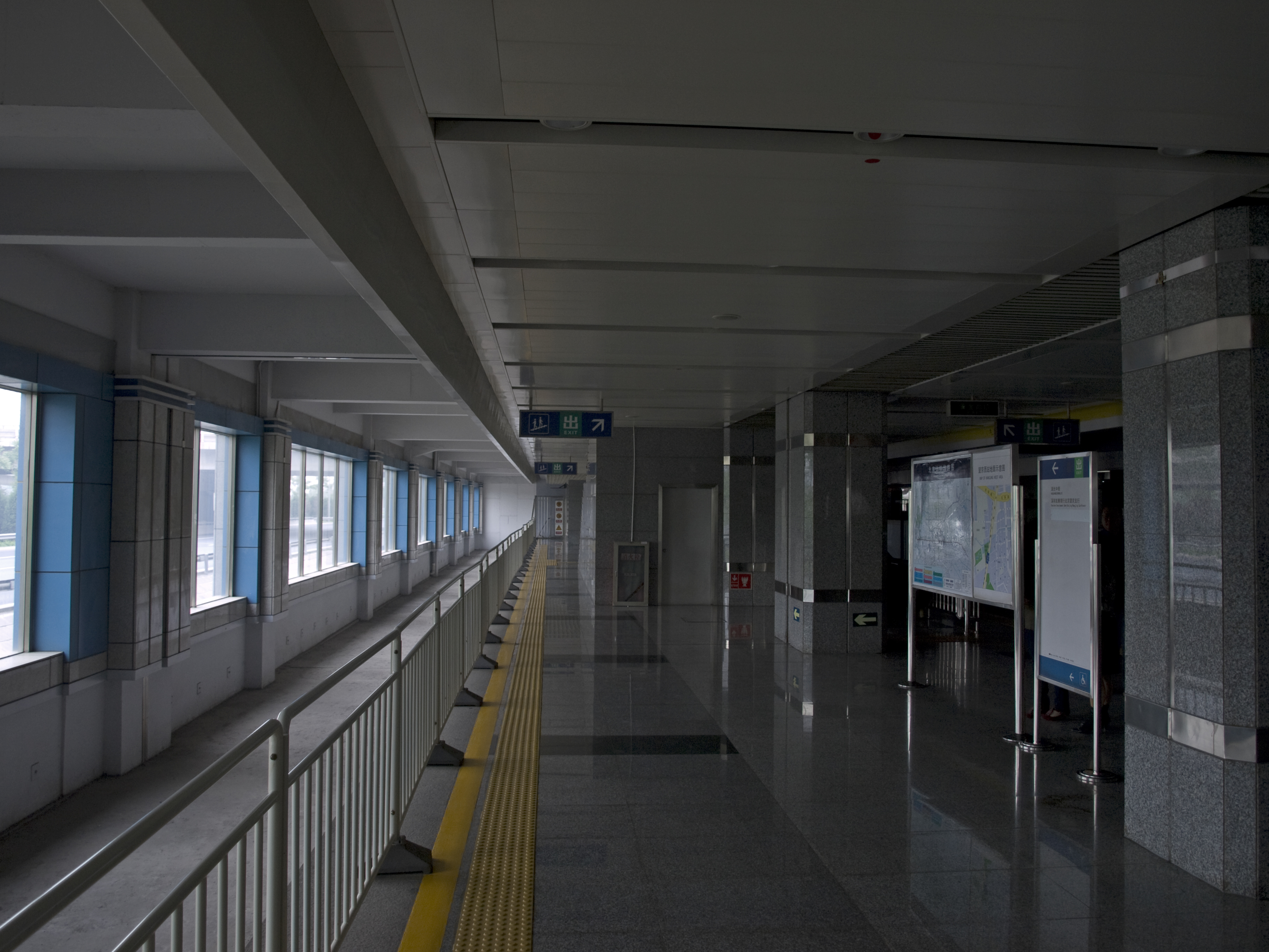 Wangjing West station, Beijing Subway